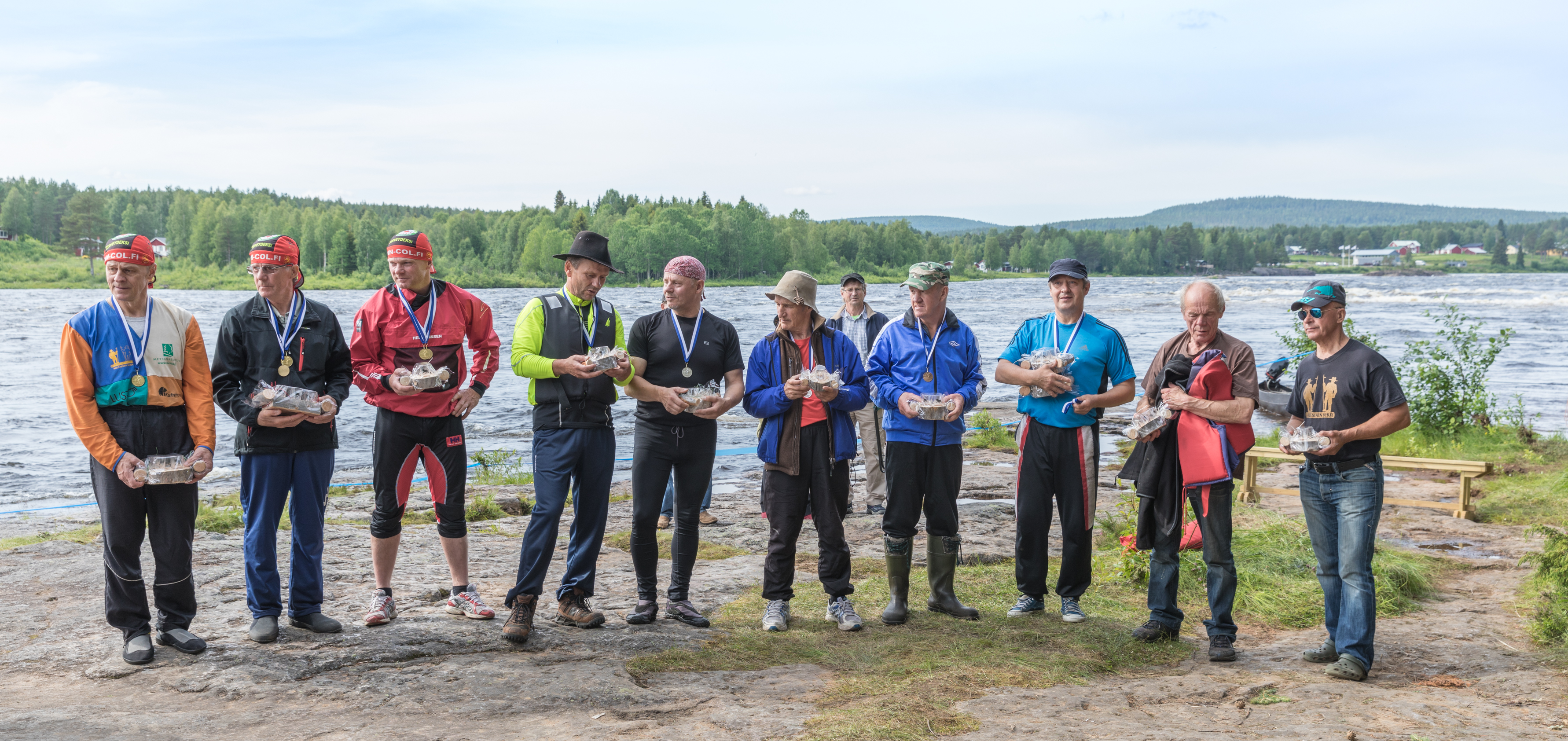 Log driving competition, Kattilakoski, Pello